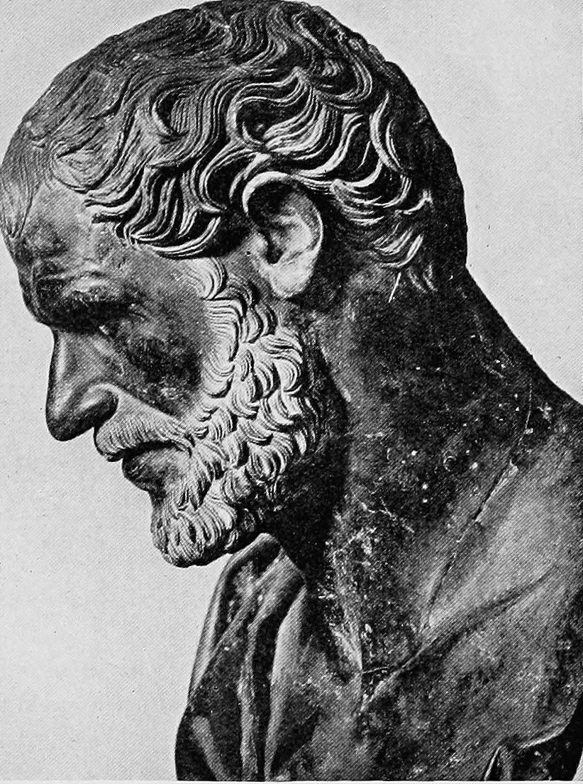 Scan from book "A Short History of the World." Caption: From Herculaneum, probably 4th century BC.